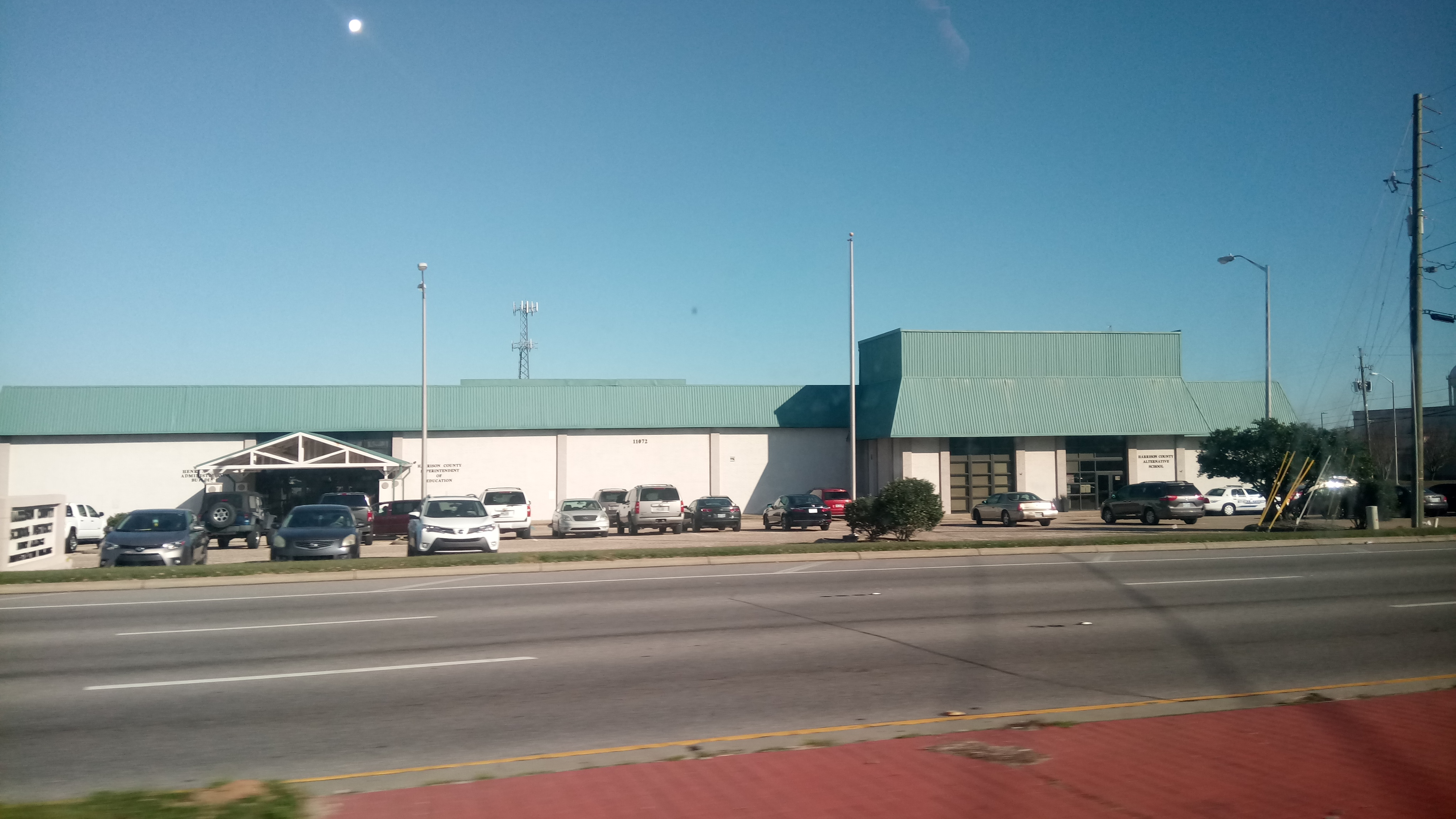 Harrisin County School distruct headquarters